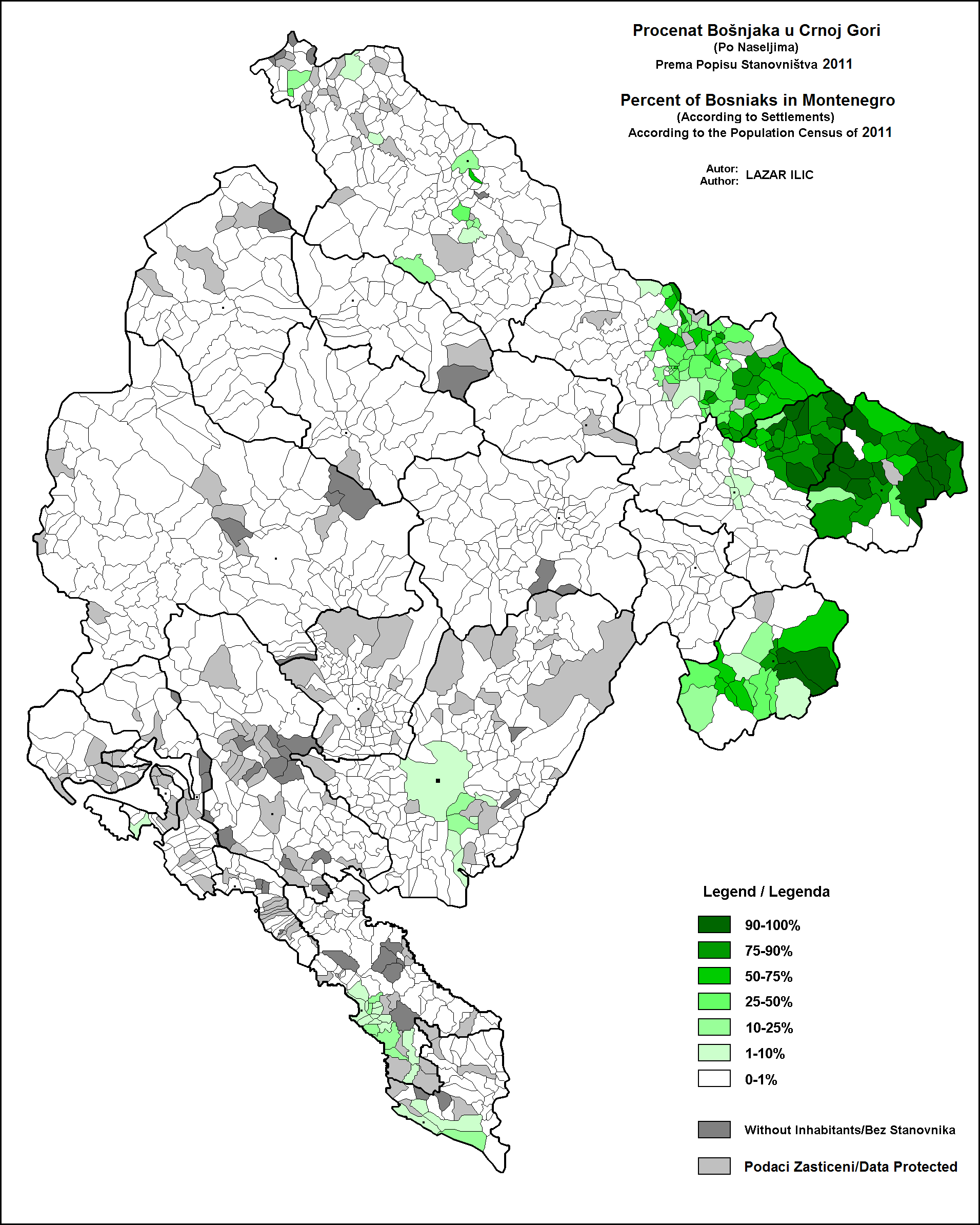 This map shows the percent of Bosniaks in Montenegro according to the 2011 population census. The units are settlements.